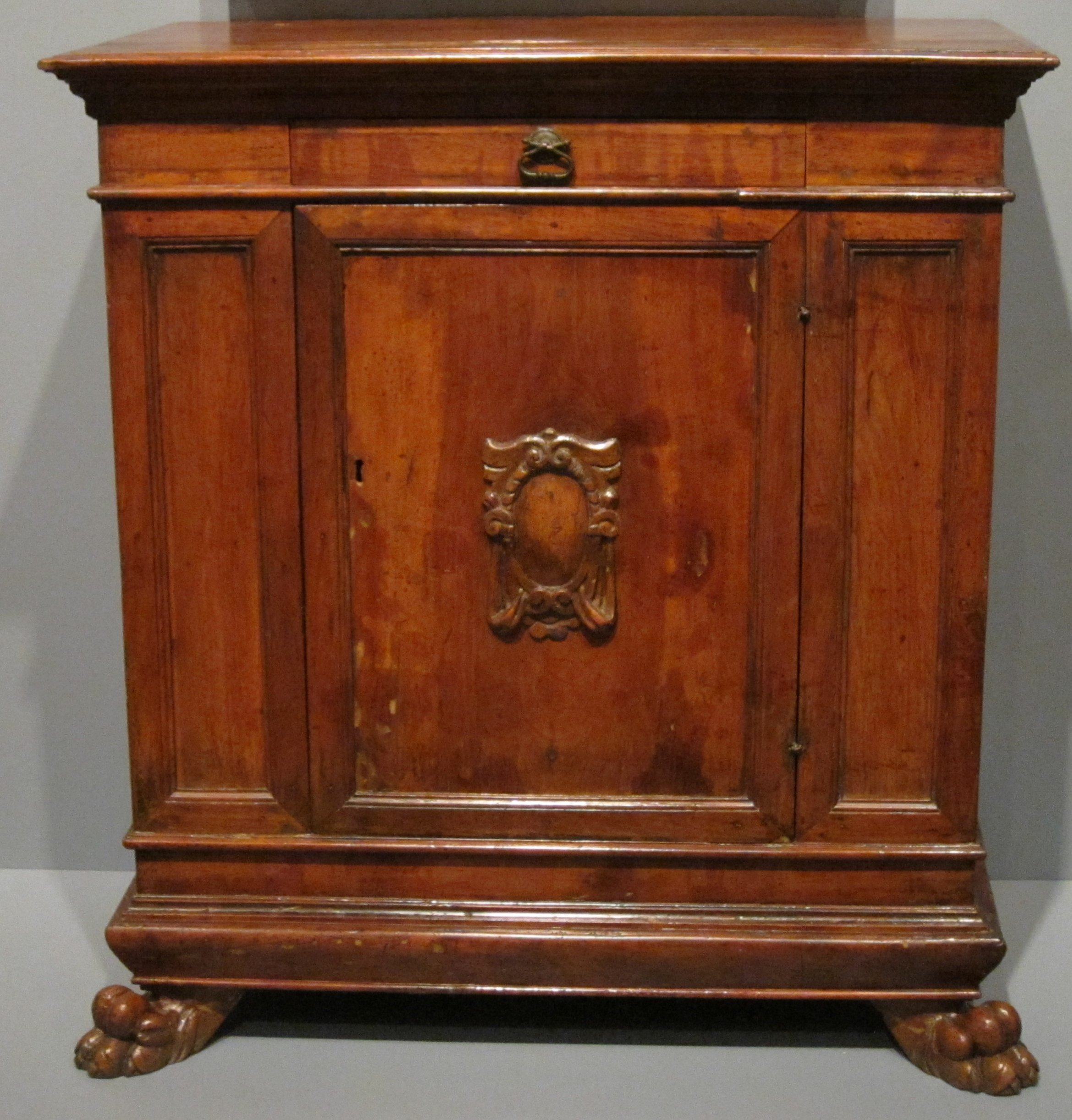 16th century Italian credenza, Honolulu Academy of Arts